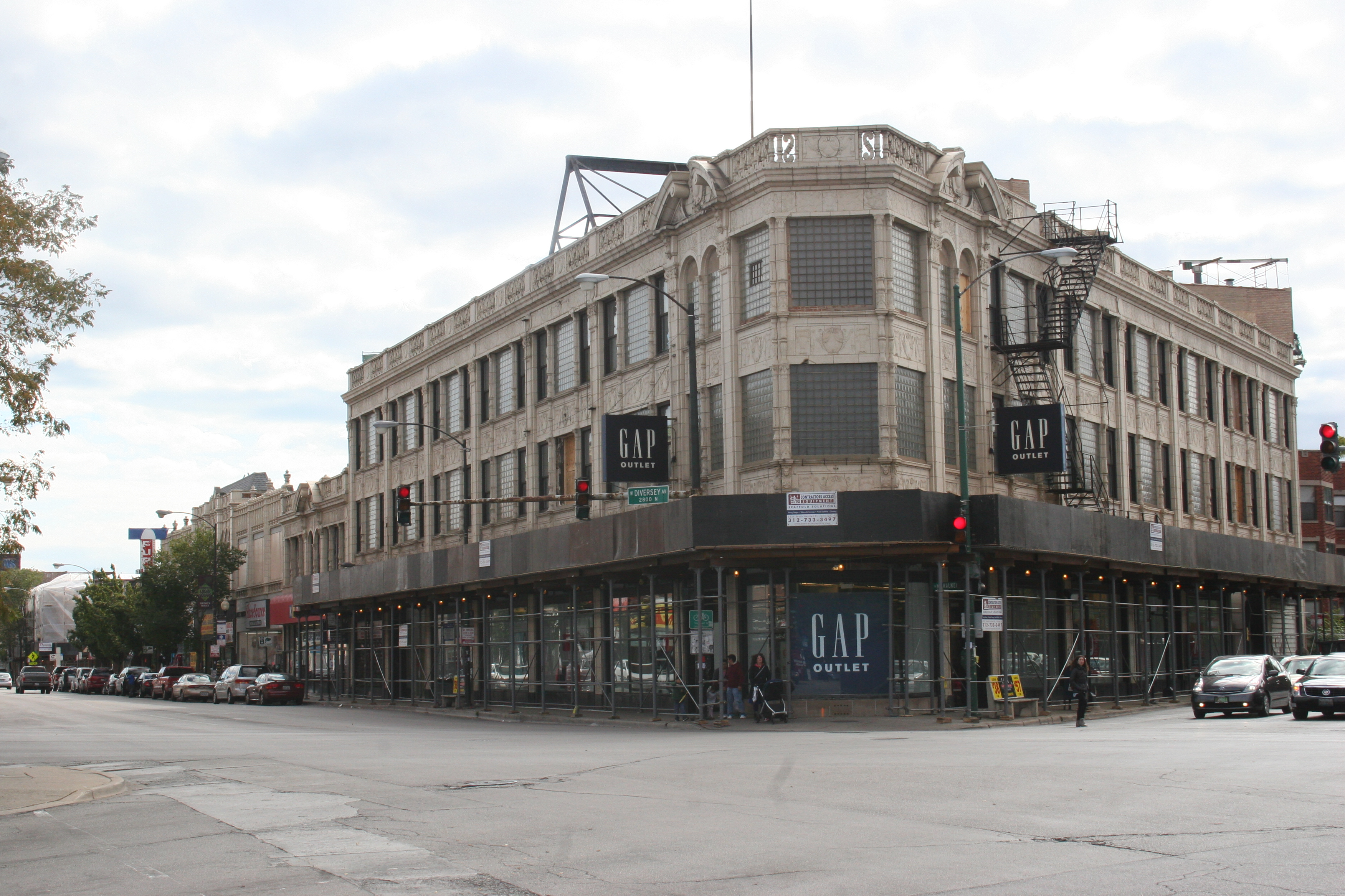 The SSE corner of Milwaukee and Diversey Avenues, with streetscape of Milwaukee Avenue